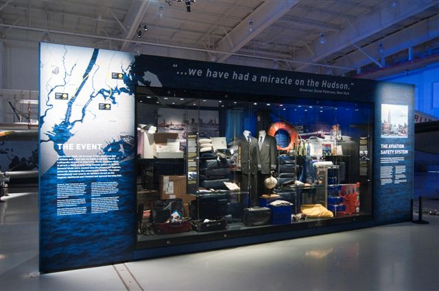 Contains uniform from Capt Sullenberger and Jeff Skiles